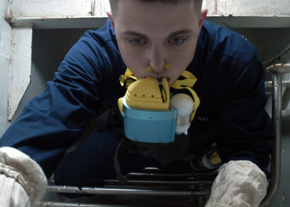 030312-N-0068T-036 Arabian Gulf (Mar. 12, 2003) -- Fireman Charles Phillips uses an Emergency Escape Breathing Device (EEBD) as he climbs up the emergence escape trunk while conducting a main machinery space fire drill aboard the amphibious assault ship USS Kearsarge (LHD 3). Kearsarge is conducting missions in support of Operation Enduring Freedom.